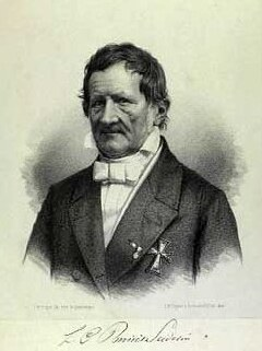 Ludvig Christian Brinck-Seidelin (1787-1865), Danish jurist, civil servant, and politician